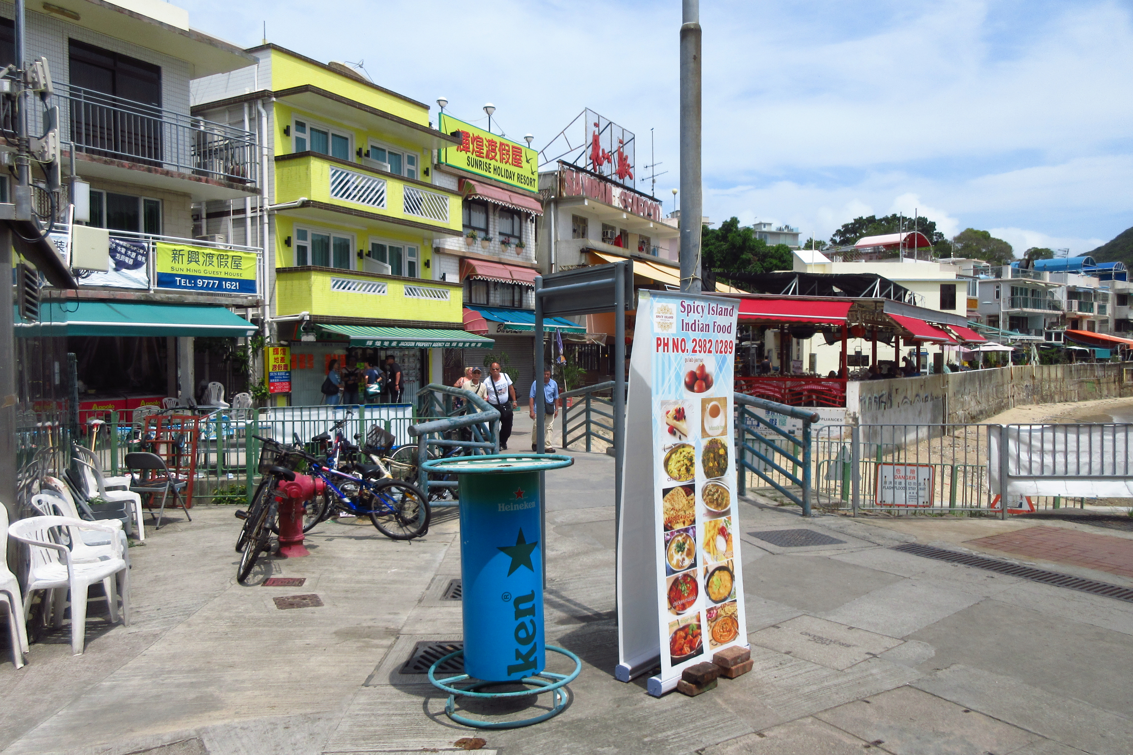 HK 南丫島 Lamma Island 榕樹灣大街 Yung Shue Wan Main Street in June 2018